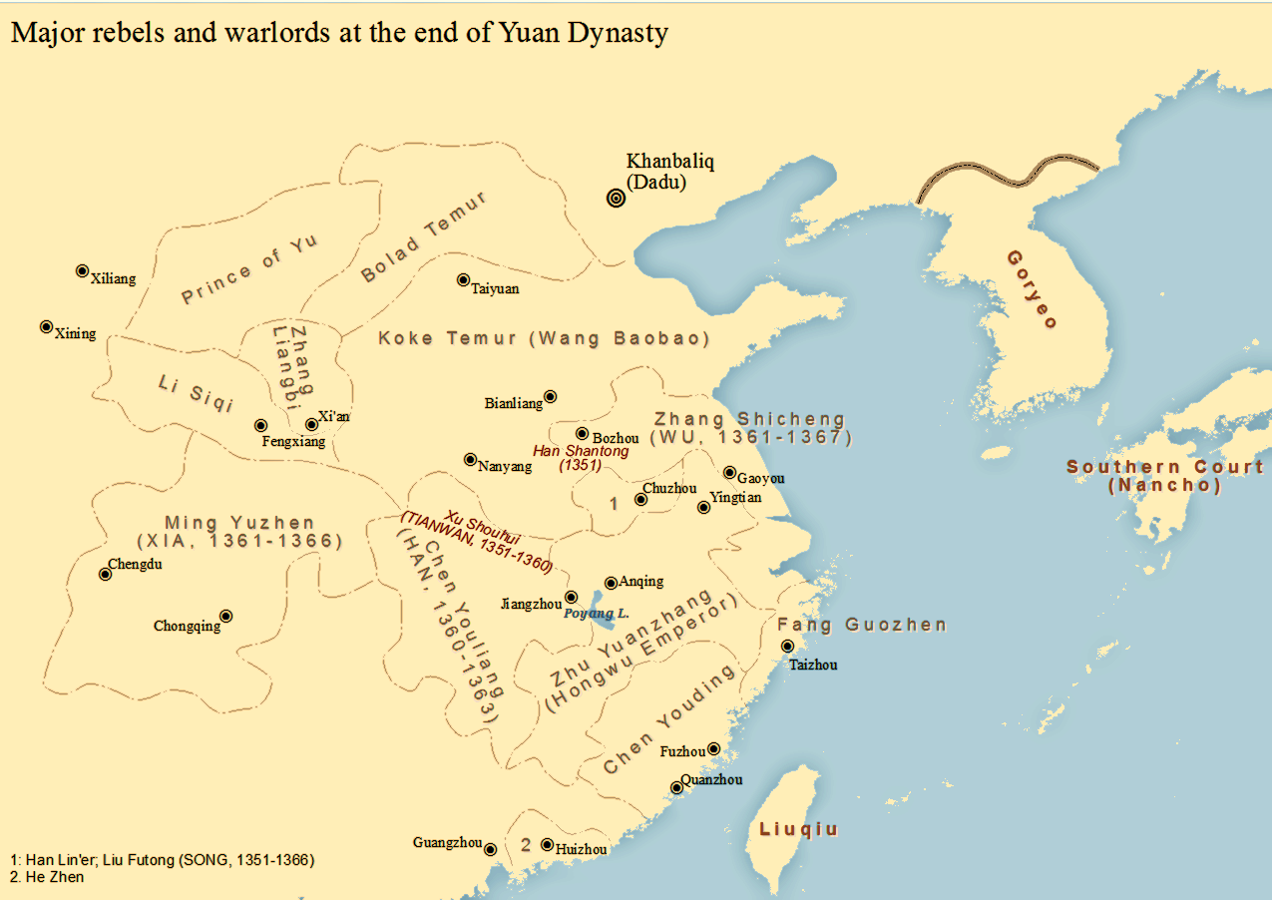 Rebels and warlords at the end of Yuan Dynasty, including major forces of the Red Turban Uprisings as well as some other Yuan warlords such as Wang Baobao and Bolad Temur.